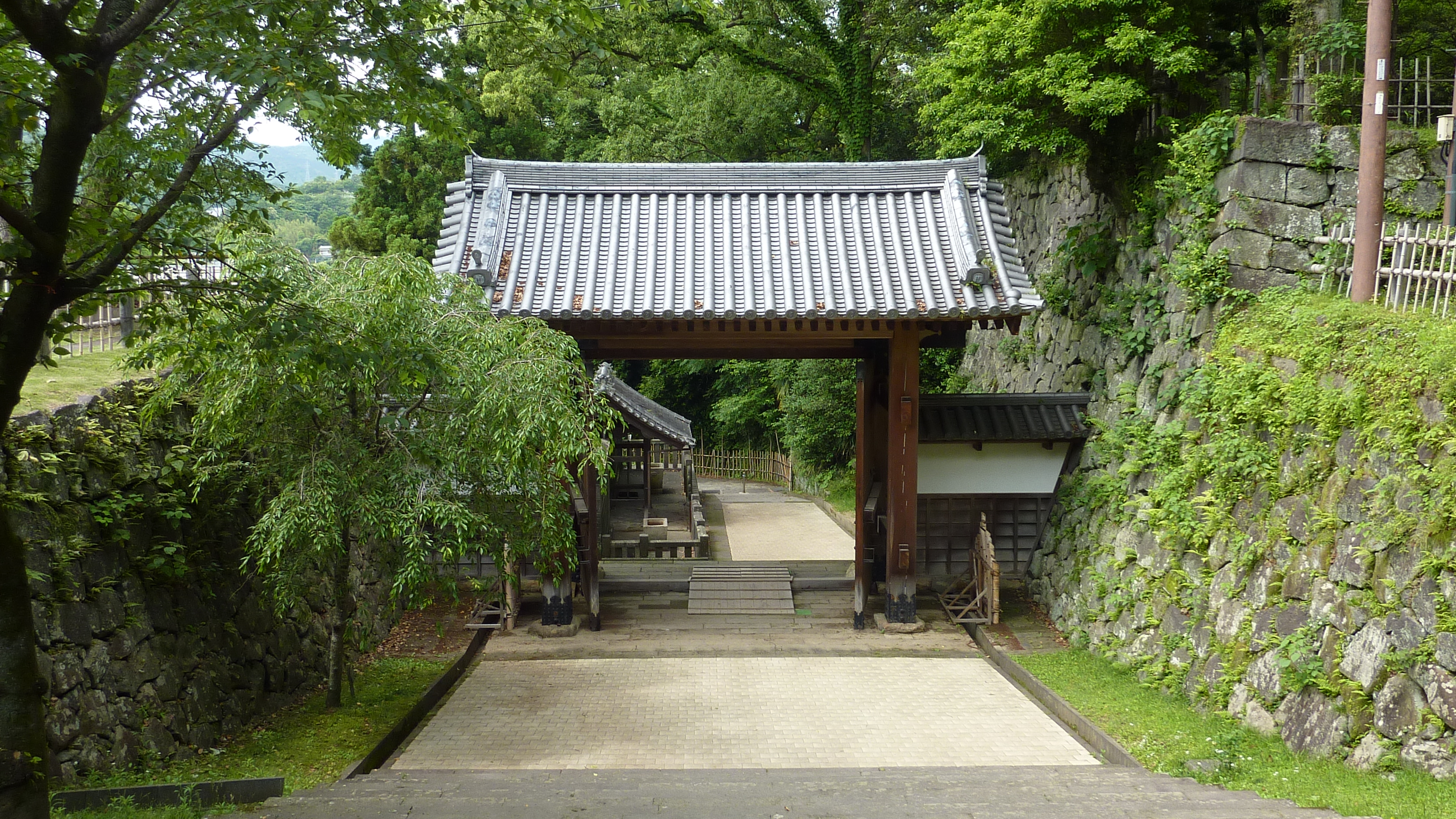 Nobeoka Castle - North Otemon (Nobeoka City, Miyazaki, Japan)